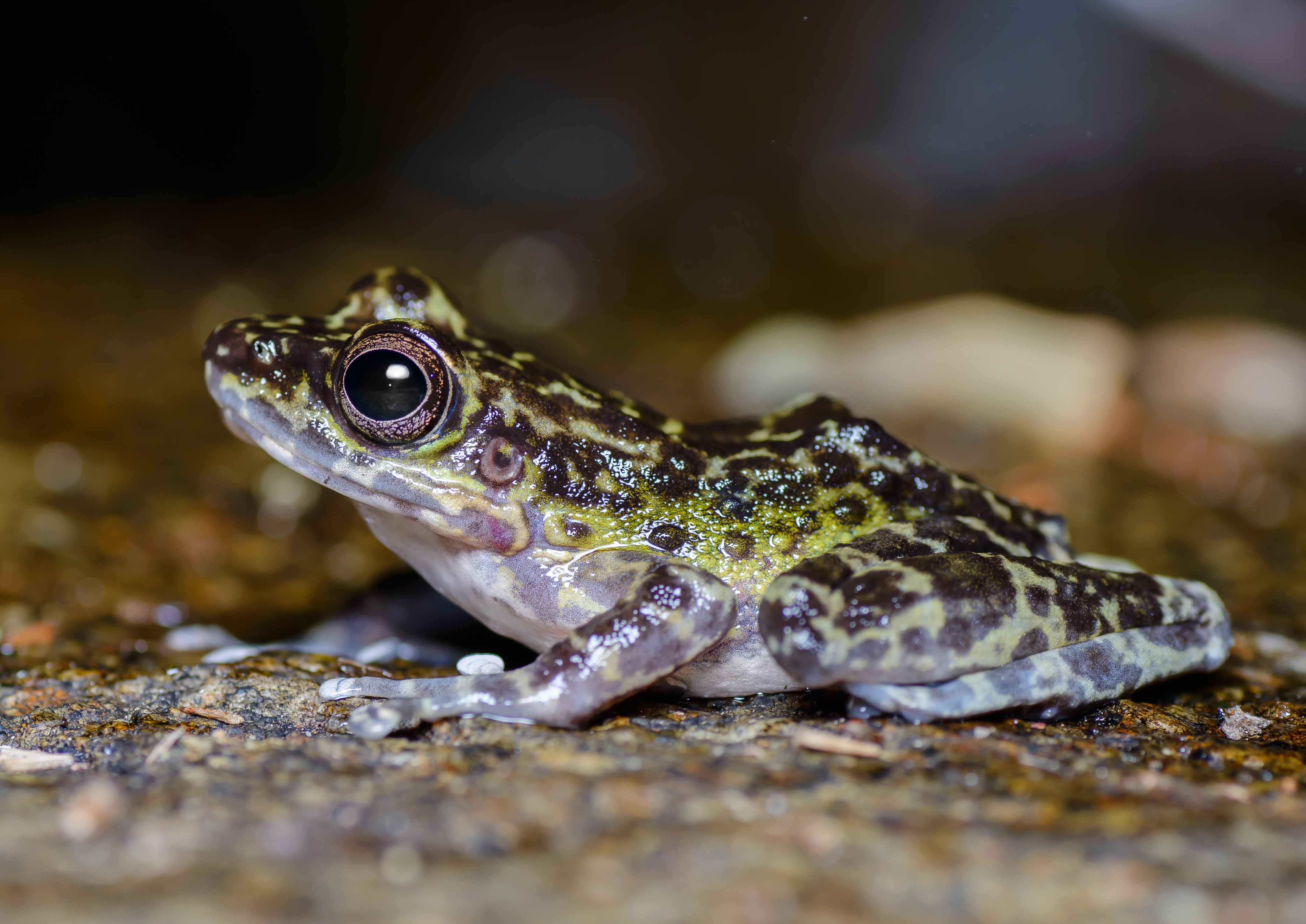 Huai Yang Waterfall National Park